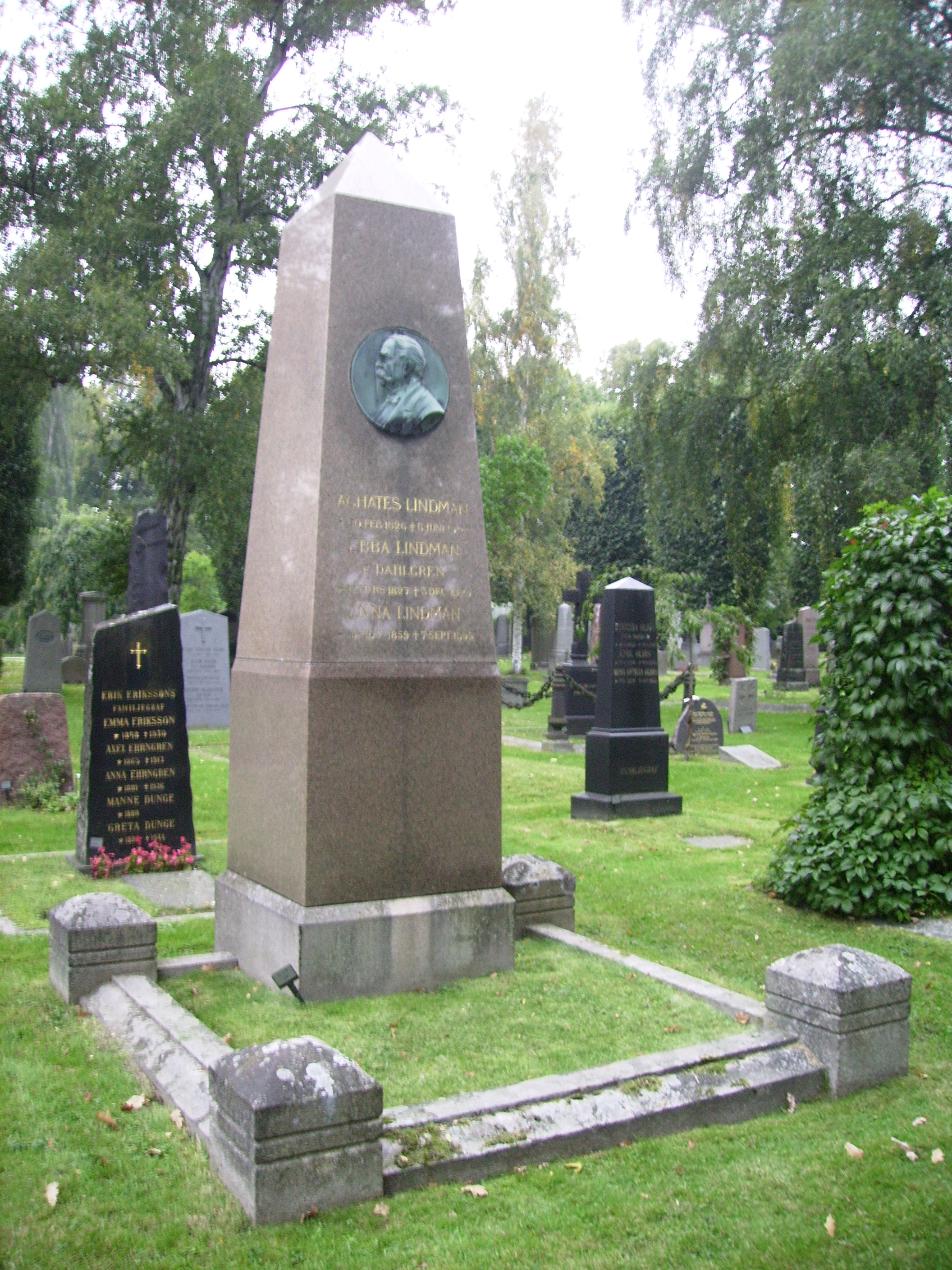 Picture of Achates Lindman's grave at Norra begravningsplatsen in Solna. Famous Swedish politician. Artist: Adolf Lindberg (1905)